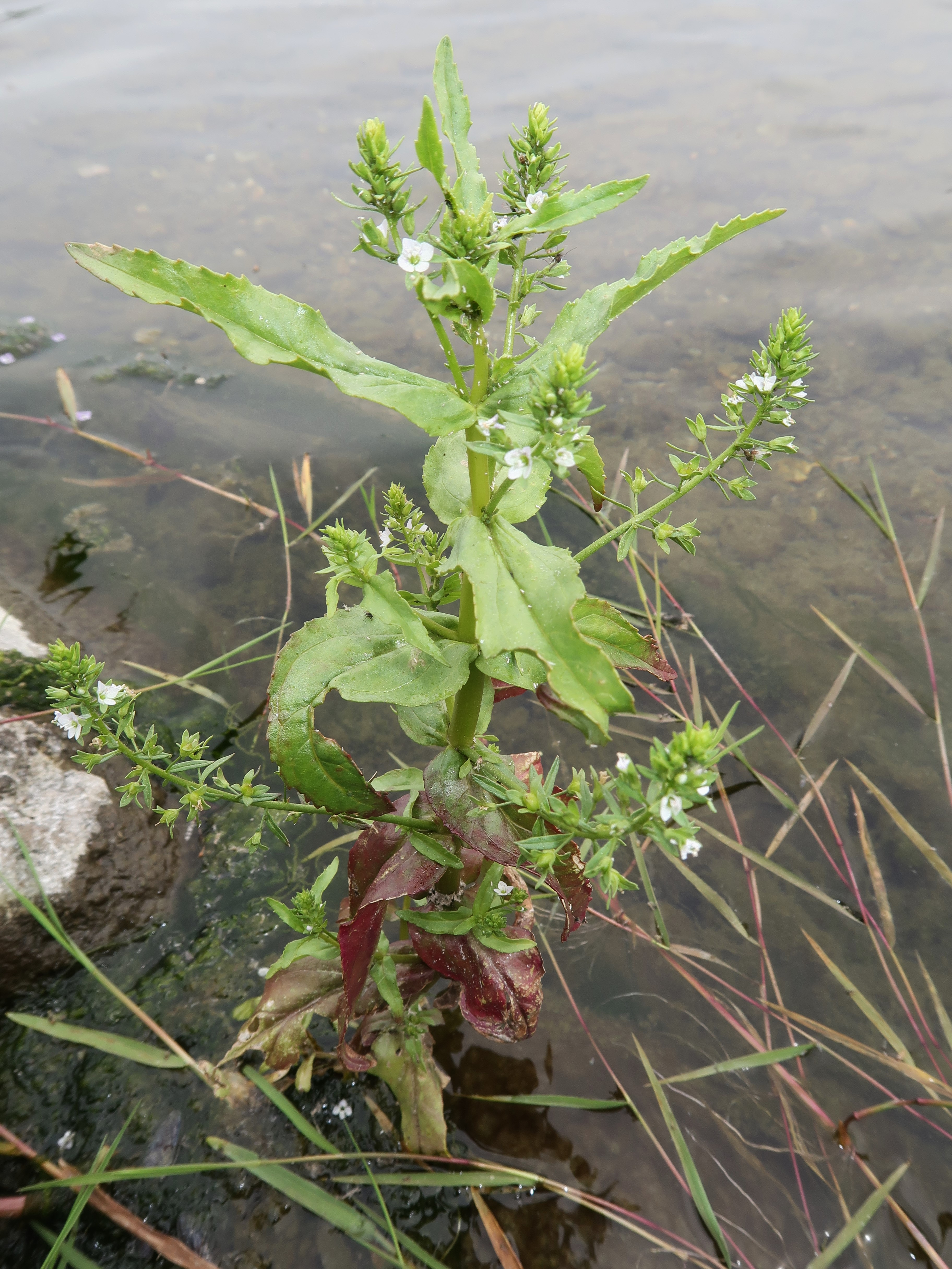 Veronica undulata, Kinugawa River , Tochigi pref., Japan